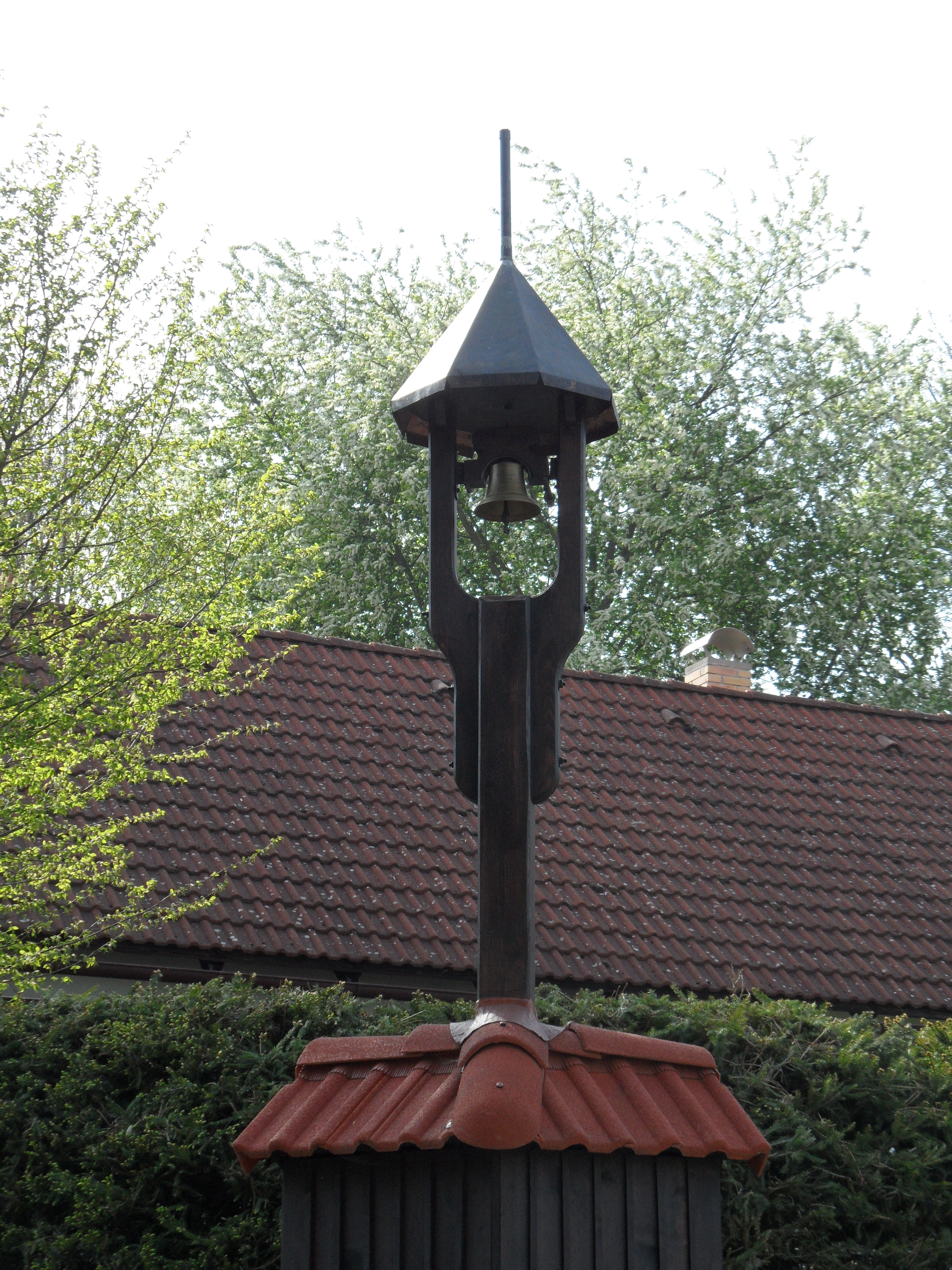 Radovesnice I h. Small Bell Tower, Kolín District, the Czech Republic.